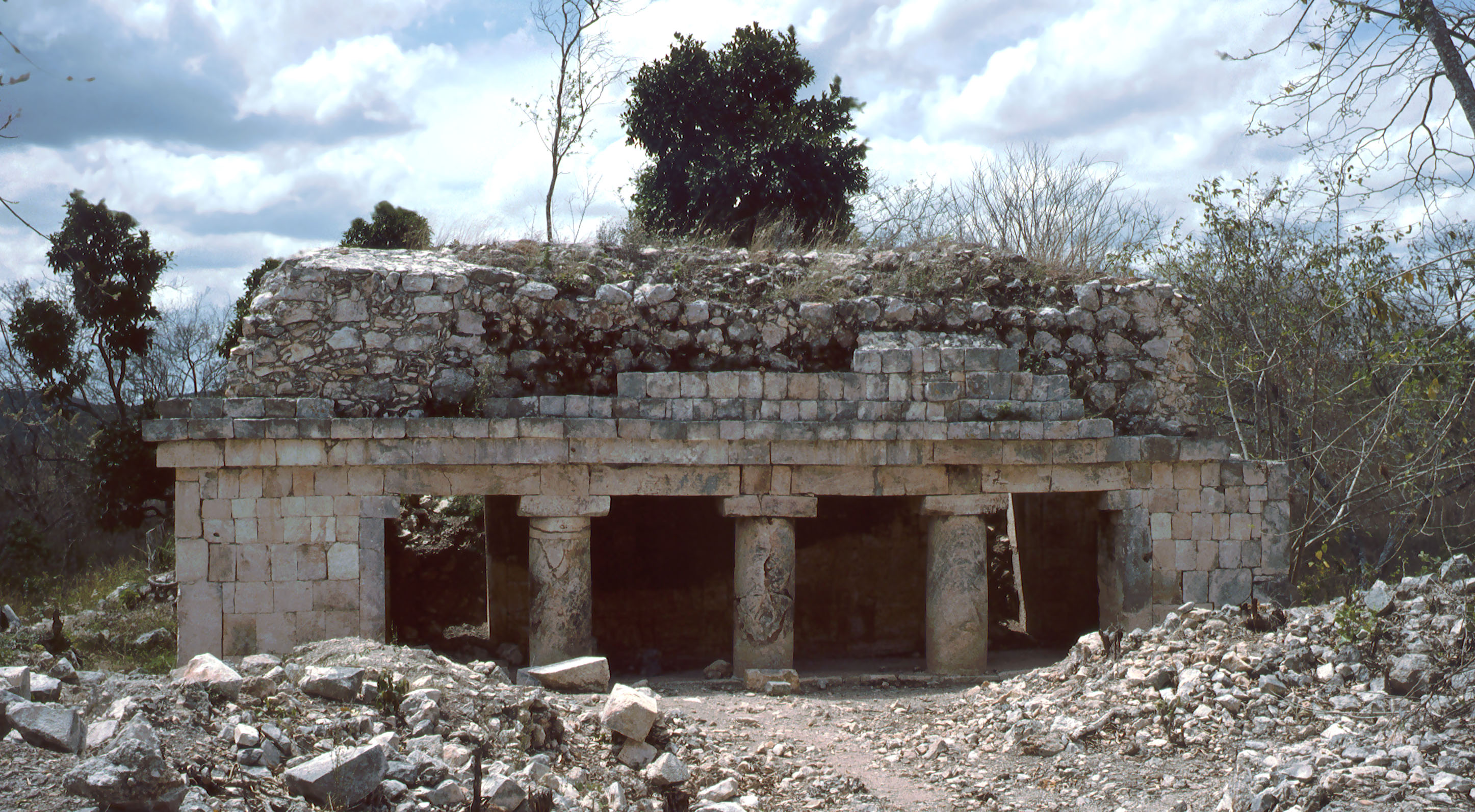 Xcalumkin, Campeche, Mexico. Group of the Initial Series, south building.